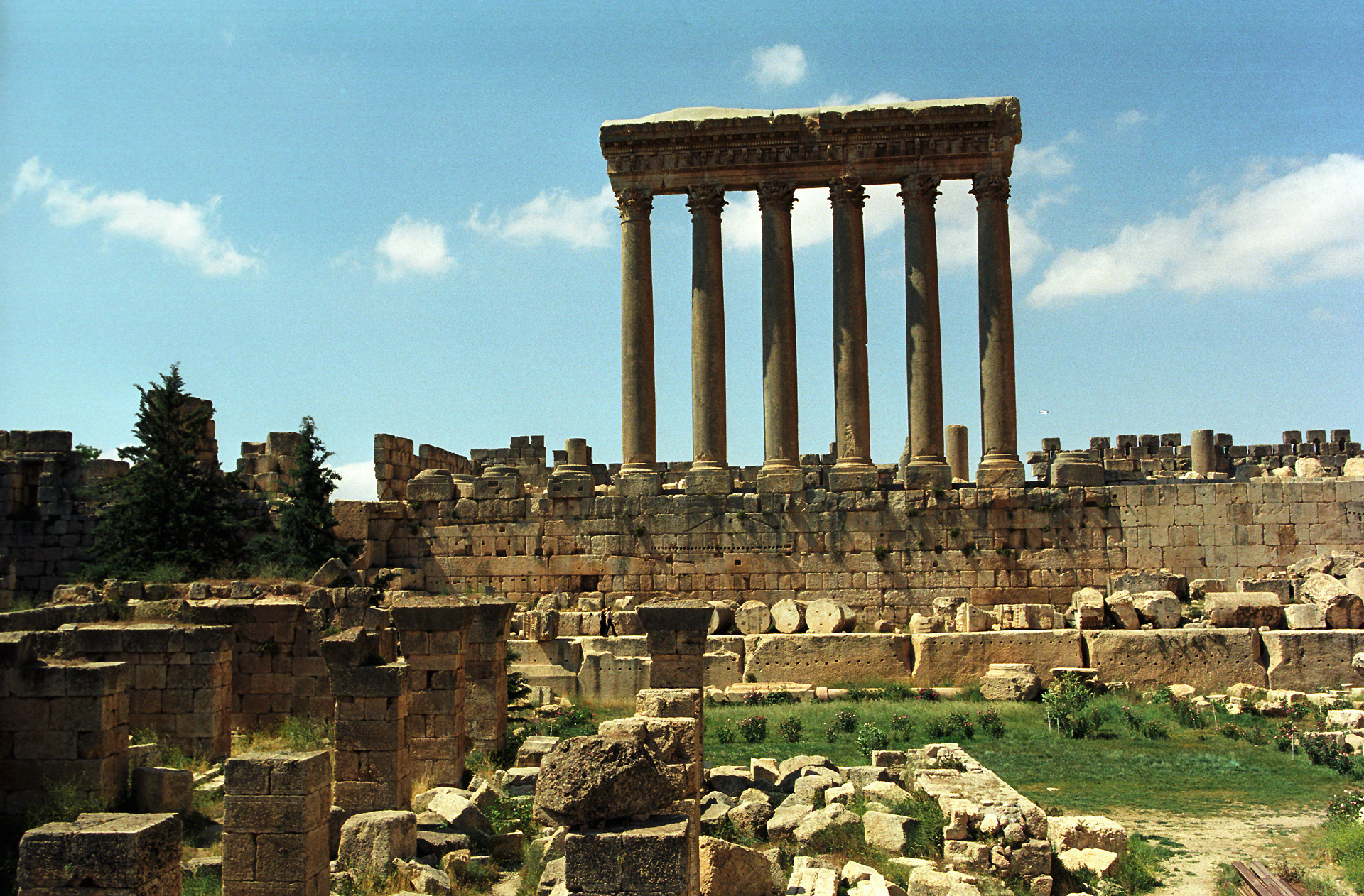 Baalbek, Temple of Jupiter